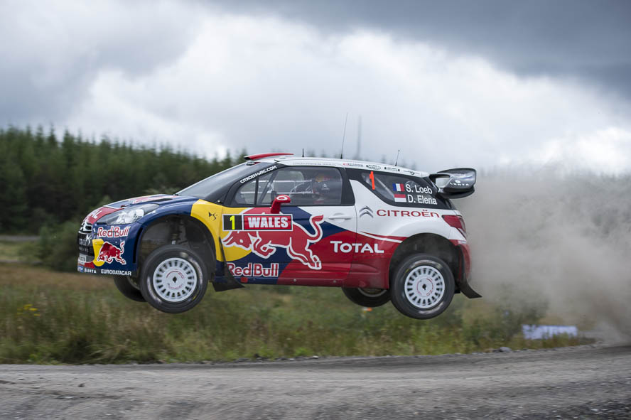 Wales Rally Great Britain 2012 Citroen DS3 WRC,Citroen Total WRT,Citroen Total World Rally Team,Daniel Elena,Free Practice,Freies Training,Motorsport,Rally,Rallye,Sebastien Loeb,Shakedown,WRC,Wales Rally GB,Walters Arena